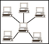 स्टार नेटवर्क (Star Topology)